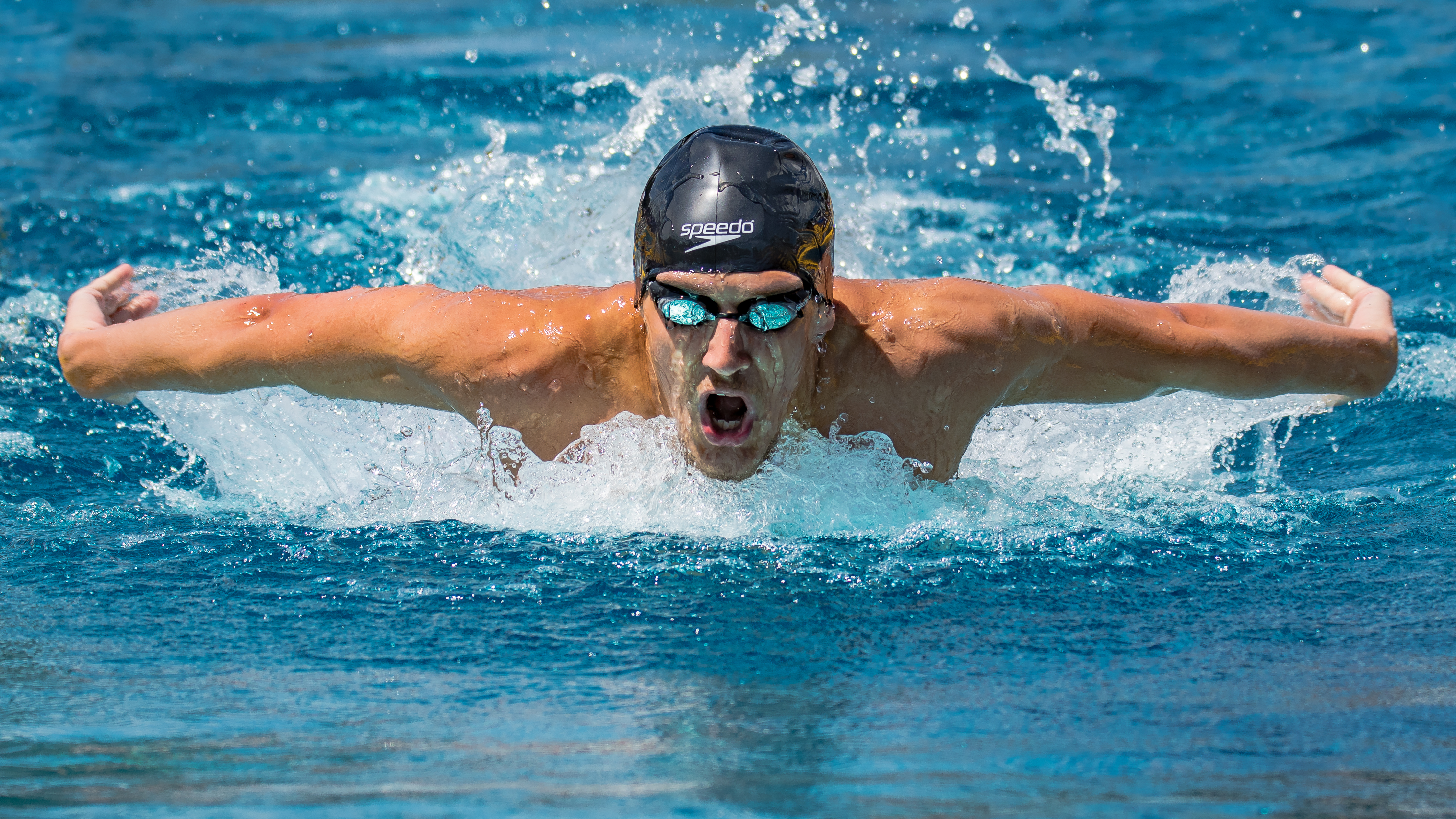 40th Swimming Zone and Masters Meeting, Enns, Austria, 2017. 100 m Butterfly stroke, Roland Raffai (not confirmed yet)